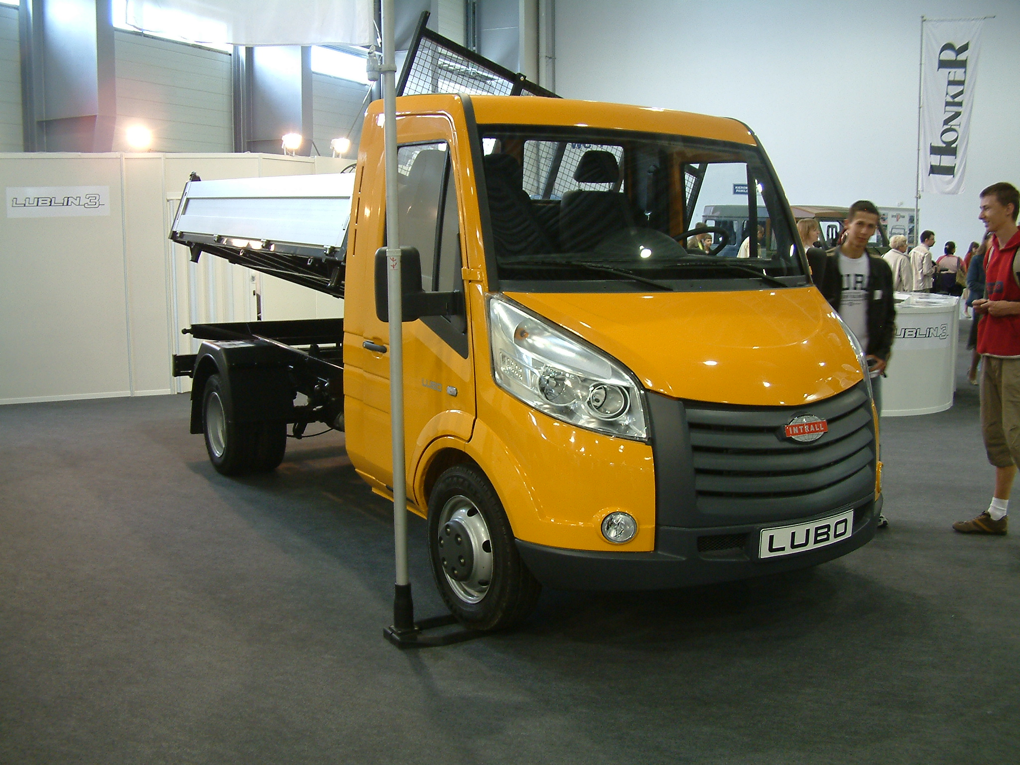 Intrall Lubo on Poznańskie Spotkania Motoryzacyjne, Poland.